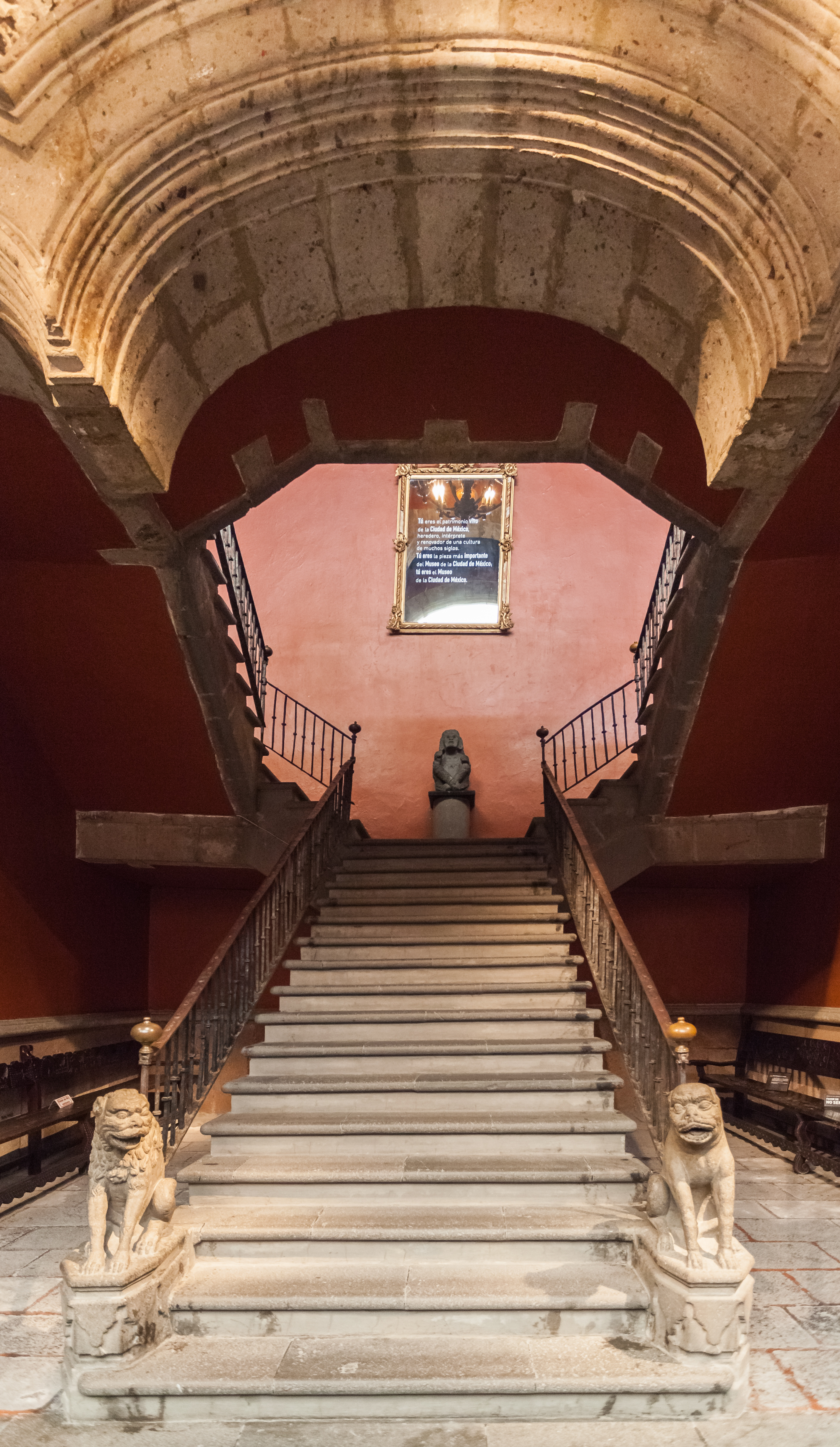 Museum of the City of Mexico, México D.F., México